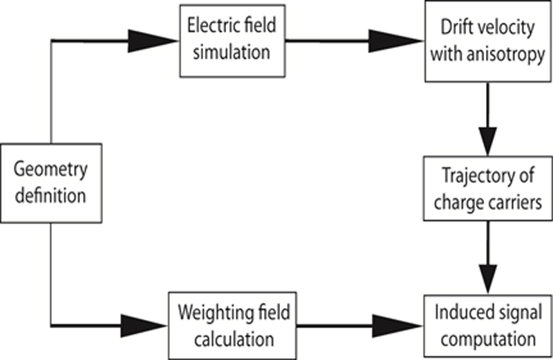 The simulation of the expected pulse shapes at the contacts of any arbitrary Ge detector geometry.